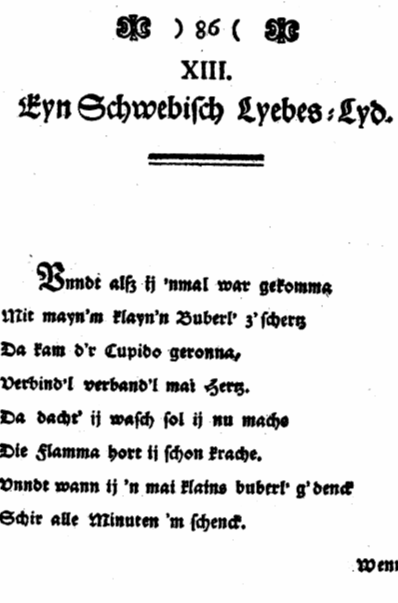 The first part of the song "Eyn Schwedisch Lyebes-Lyed". Eyn feyner kleyner Almanach, by F. Nicolai (1777-1778).